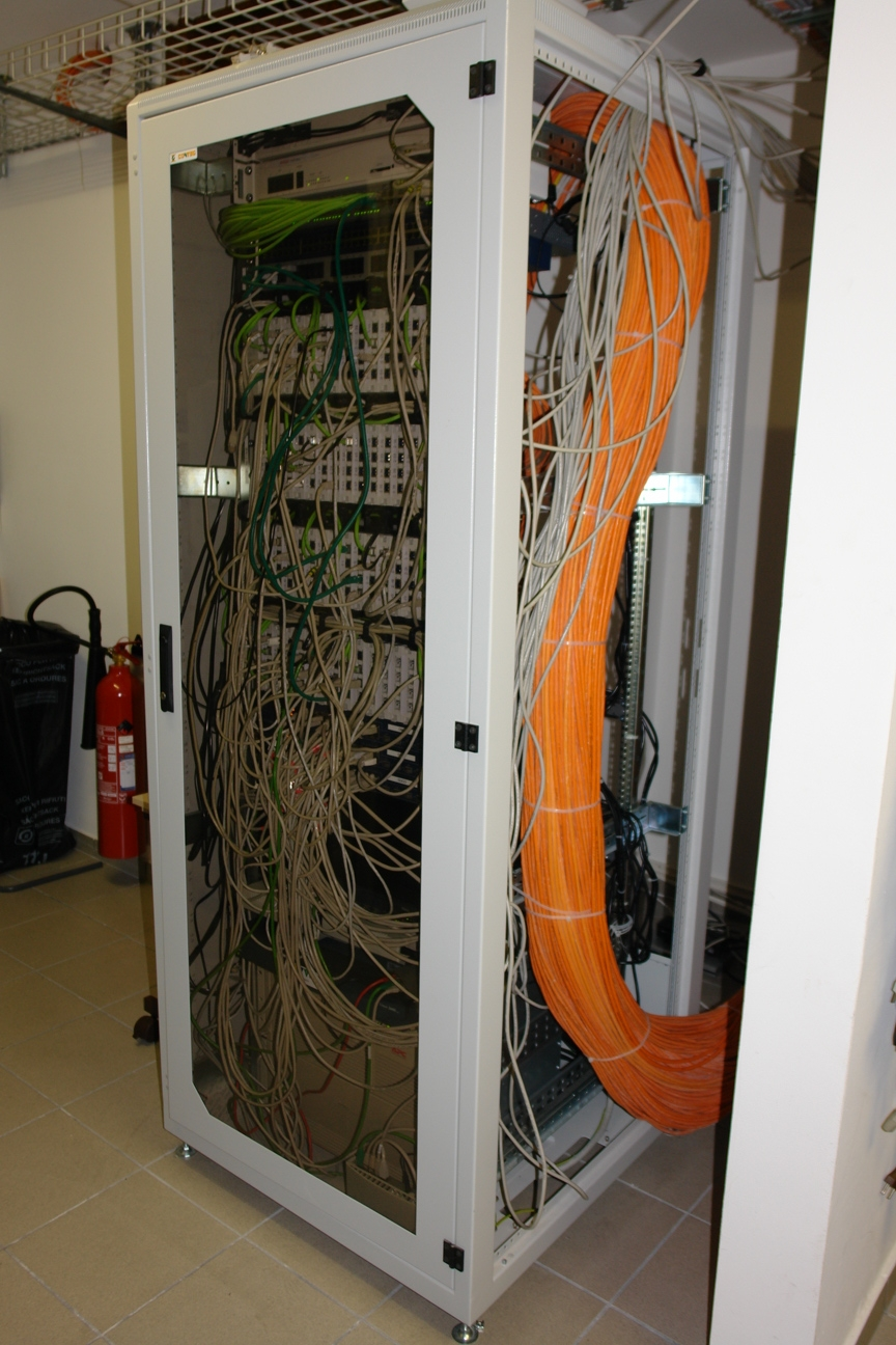 Computer rack with switches and cables.